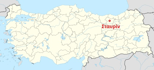 Stavrin Pontou location